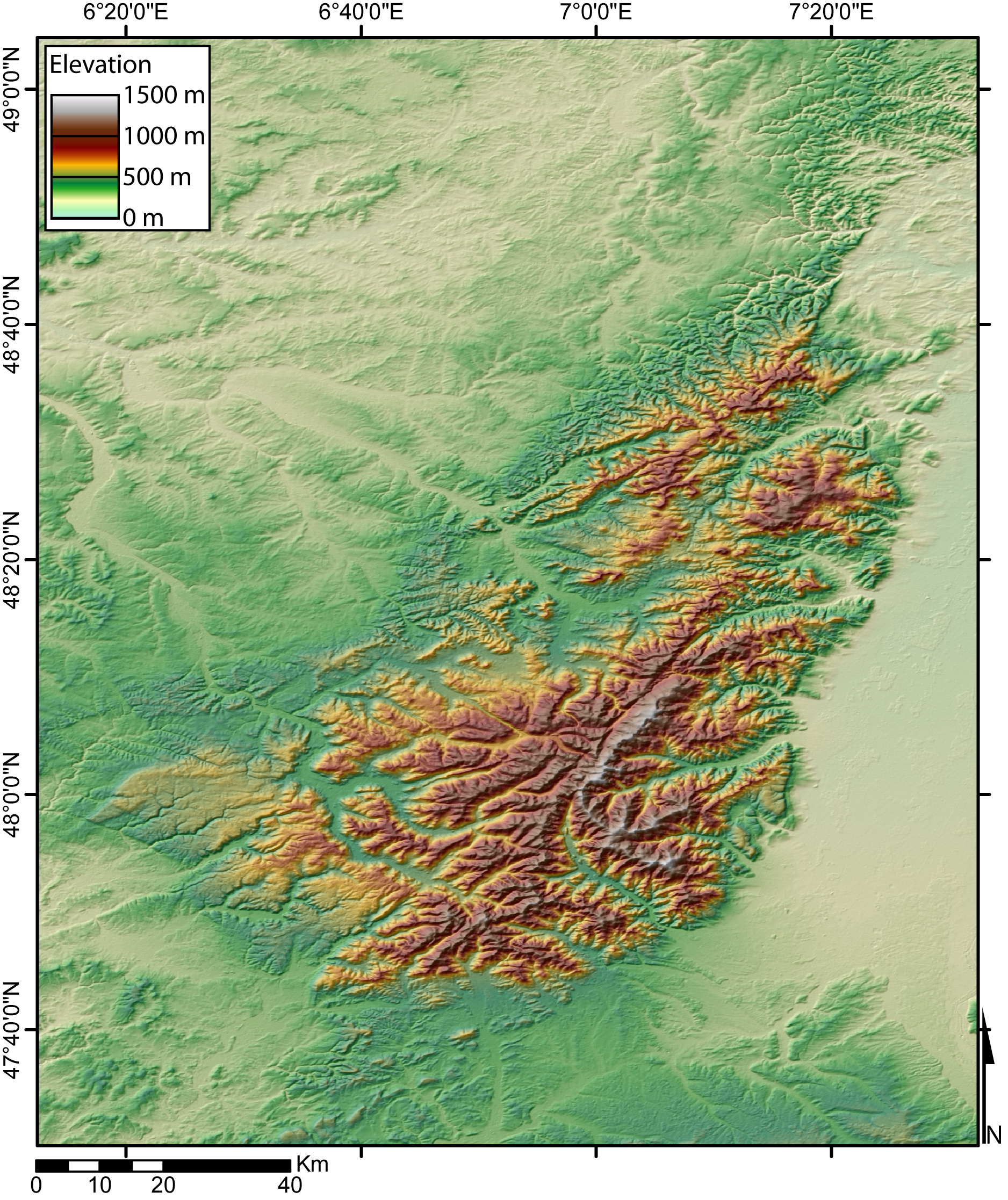 DEM of the Vosges Massif (Eastern France) created by Jide from the 90m pixel size SRTM dataset.